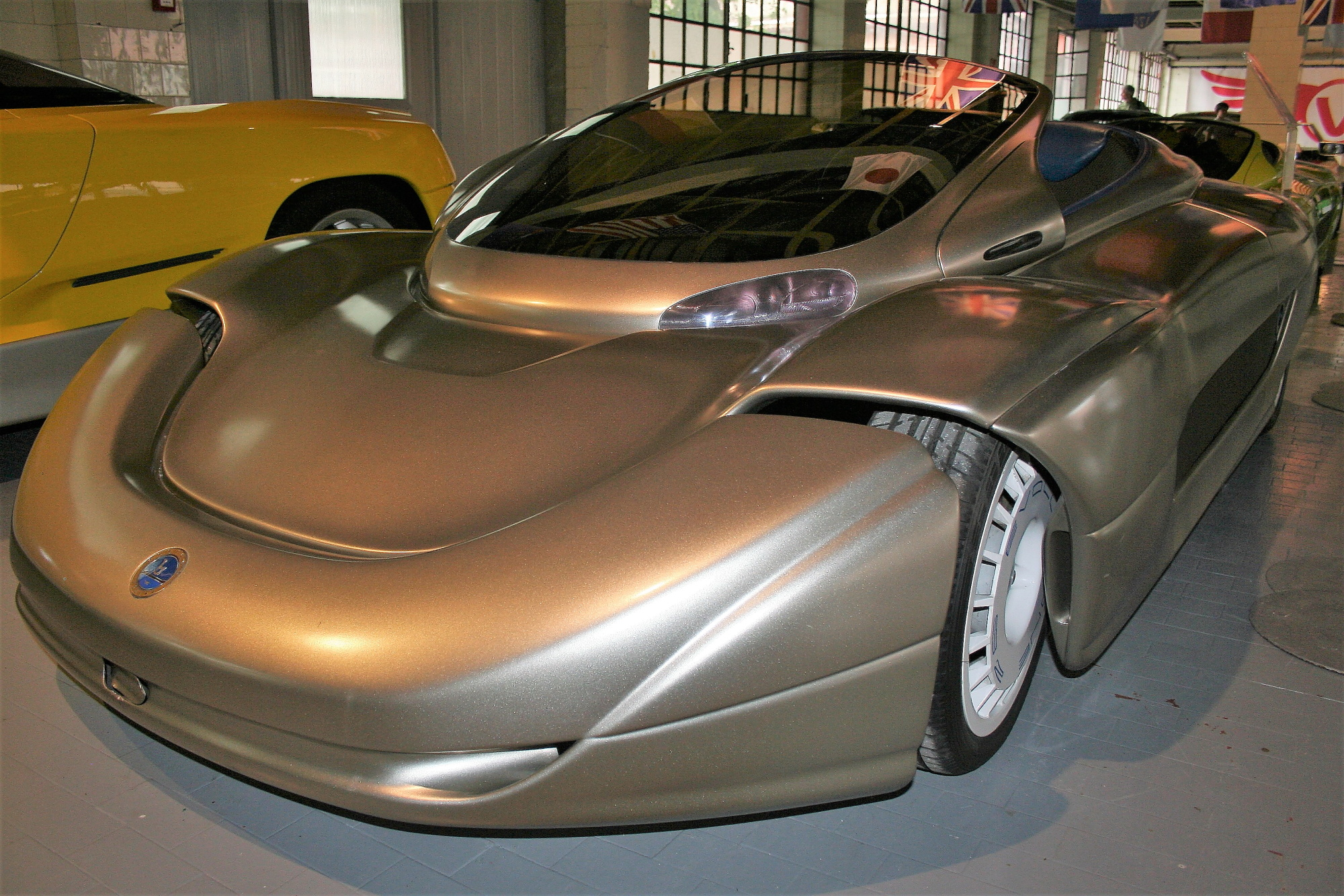 1992 Bertone Blitz electric concept vehicle. At the Bertone collection of the Automotoclub Storico Italiano (ASI), located in Volandia outside of Milan (by the Malpensa airport and museum areas